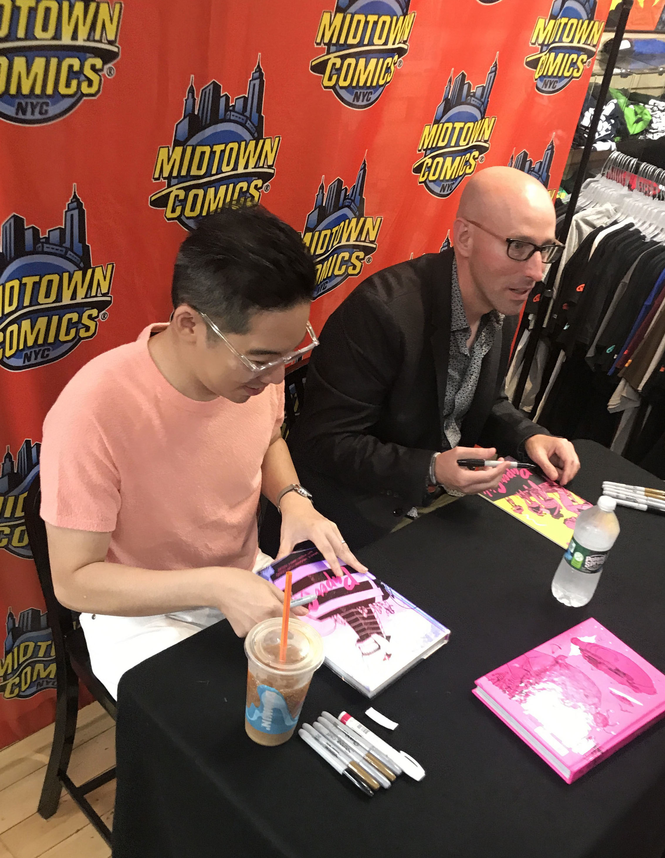 Comics artist Cliff Chiang (left) and comics and television writer Brian K. Vaughan (right) at an August 1, 2019 book signing for Paper Girls #30 (July 2019), the final issue of that series, at Midtown Comics Downtown in Lower Manhattan. This photo was created by Luigi Novi. It is not in the public domain, and use of this file outside of the licensing terms is a copyright violation.